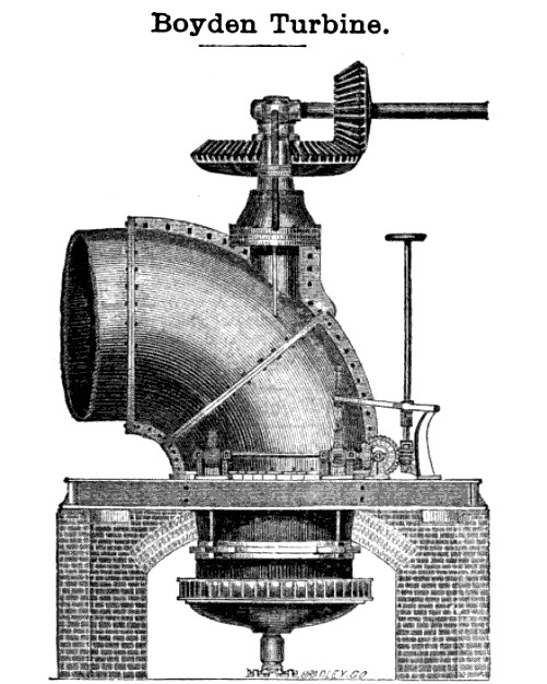 Sketch of a Boyden Turbine, 1878